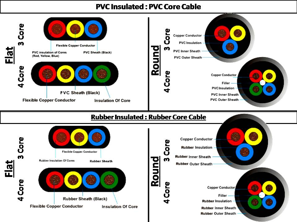 Structure of Cable in different types with standard color shades.